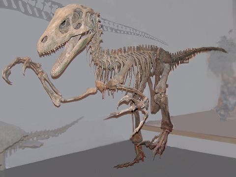 A skeletal model of the theropod dinosaur Utahraptor in the College of Eastern Utah Prehistoric Museum